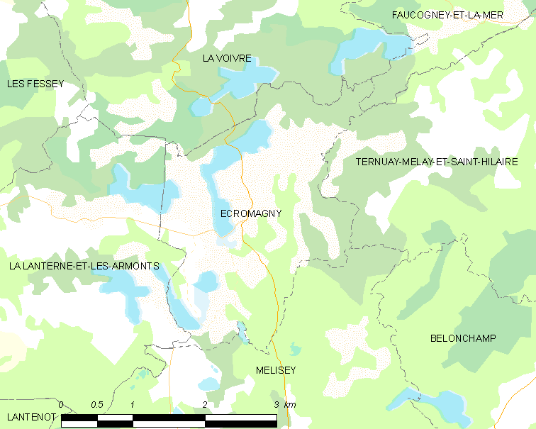 Map of French municipality